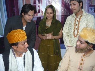 Ideal drama and entertainment Academy (IDEA) is staging renowned Urdu writer Shri Kazi Mushtaque Ahmed’s play ‘AATISH-E-KASHMIR’ based on Hindu- Muslim unity , the struggle of people residing in Kashmir and how they have together fought for their rights in their own mother land ‘Kashmir